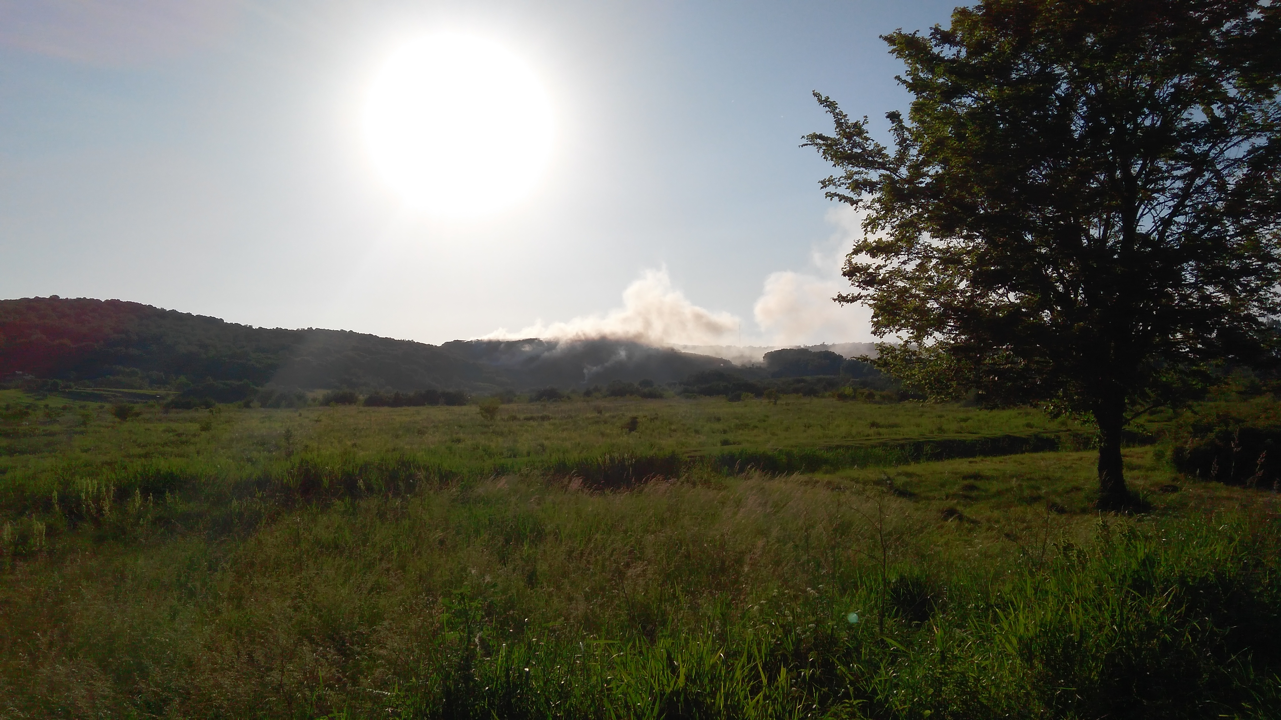 Fire on the Lviv dump